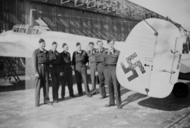 Schleswig, Germany, 19 June 1945. Informal group portrait of a Handley-Page Halifax crew of No. 462 Squadron RAAF standing next to an Messerschmitt Me 110G-4 aircraft (G9+BA). Identified are, left to right: Flight Lieutenant M. Langworthy (pilot), Flight Sergeant Mitchell (gunner), Ray (bomb aimer), Flying Officer Ivan Campbell (navigator), Flight Sergeant Ted Casey RAF (engineer), unidentified (gunner), Warrant Officer Mick O'Brien (wireless operator). The Me 110 tail fin bears 121 emblems made up of small rondelles next to an aircraft and a date, representing the number of Allied aircraft destroyed by the pilot, Major Wolfgang Schnaufer of NJG 4. The tail fin is held in the Australian War Memorial's collection.